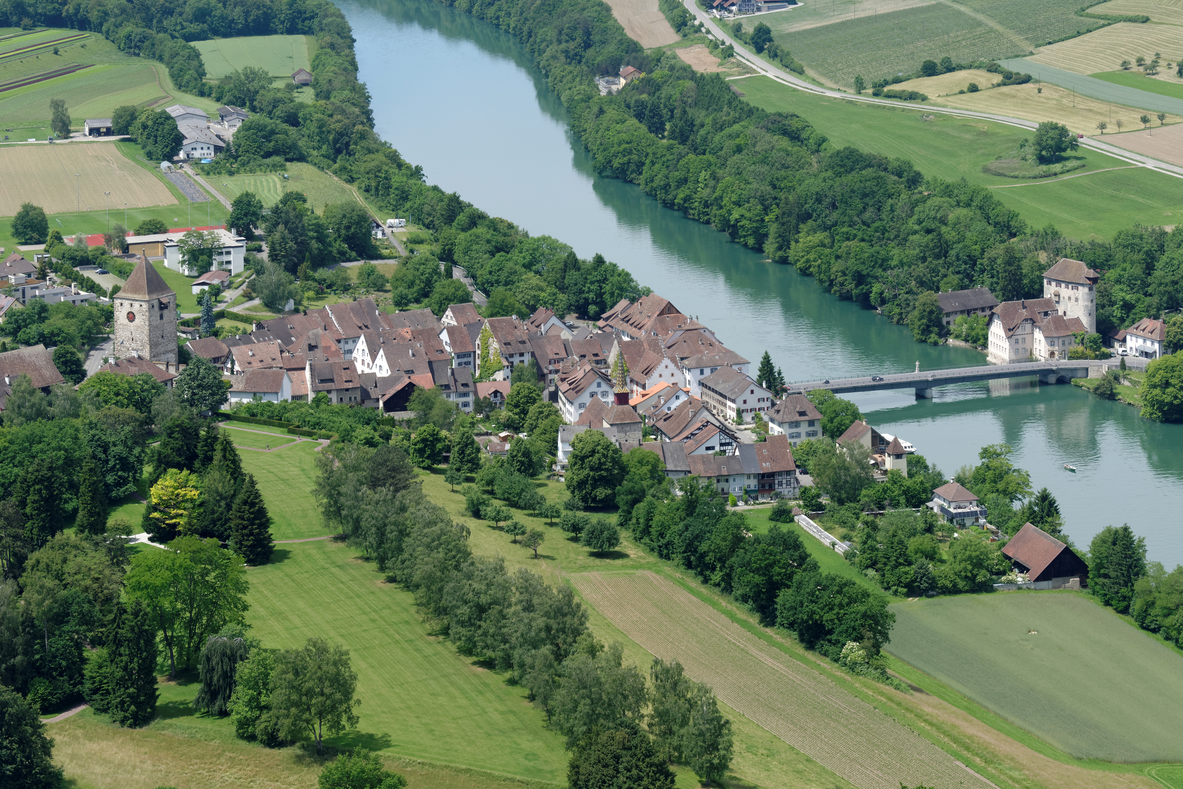 Kaiserstuhl